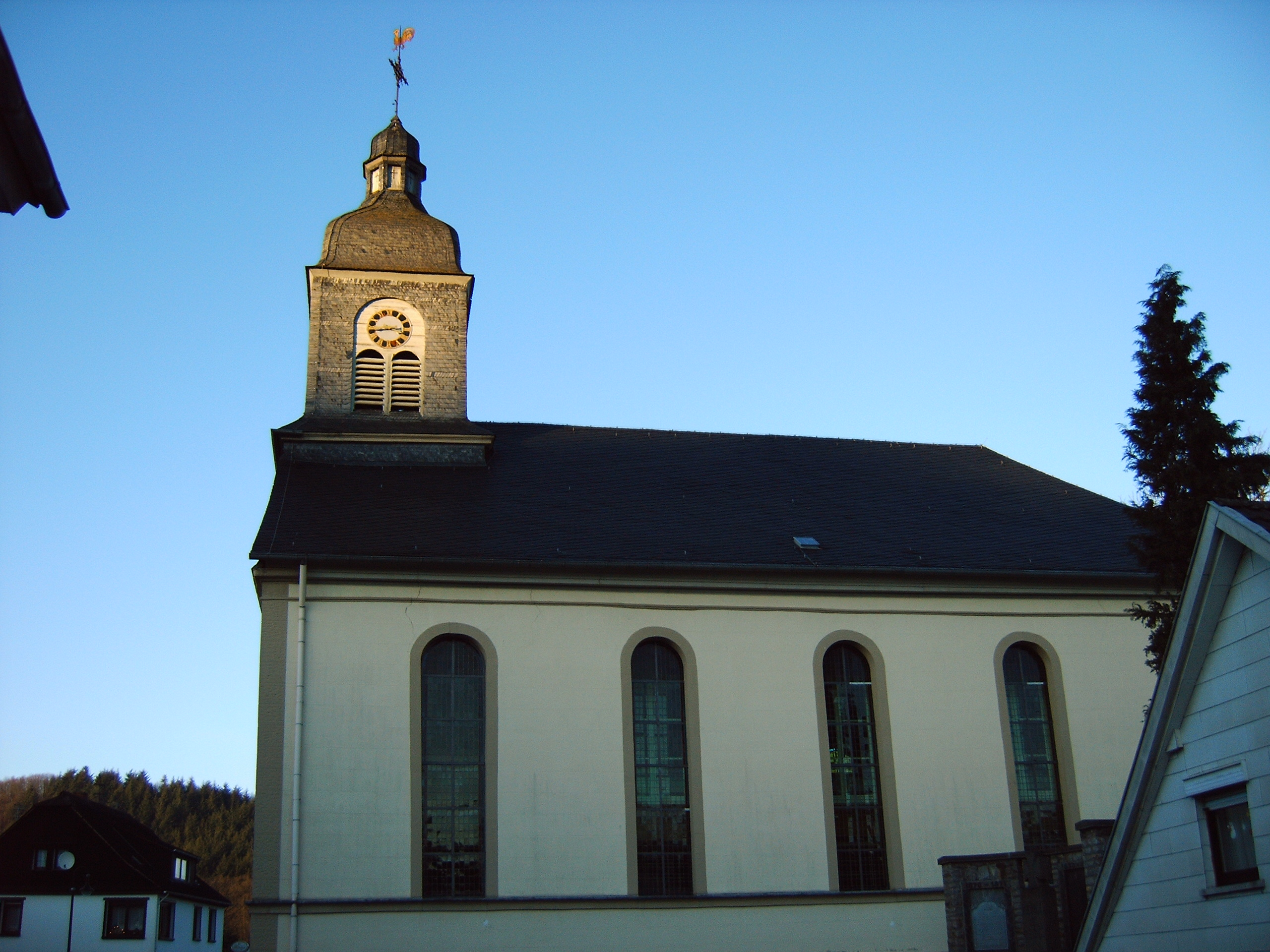 Description: Protestantic church in Niederwörresbach, Germany, build 19th century Source: Alexander Dreyer Site views of Niederwörresbach, Germany, Photographed by myself, dec. 2005